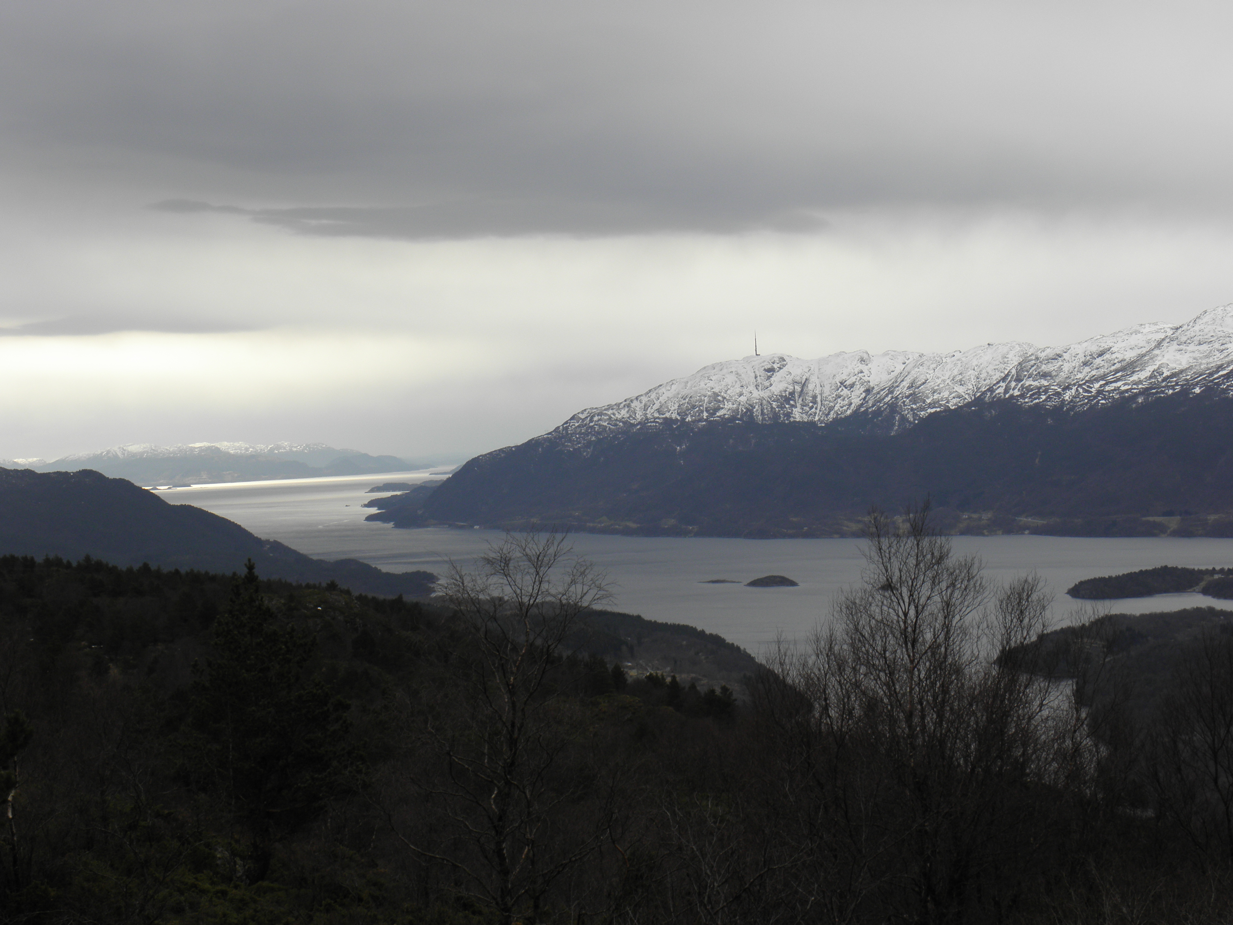 A view of Kattnakken (the masted top) located in the municipality of Stord in Hordaland, Norway. In the foreground lies the Langenuen strait. The picture is taken from the mountain Stølefjellet, which is located in the municipality of Tysnes.